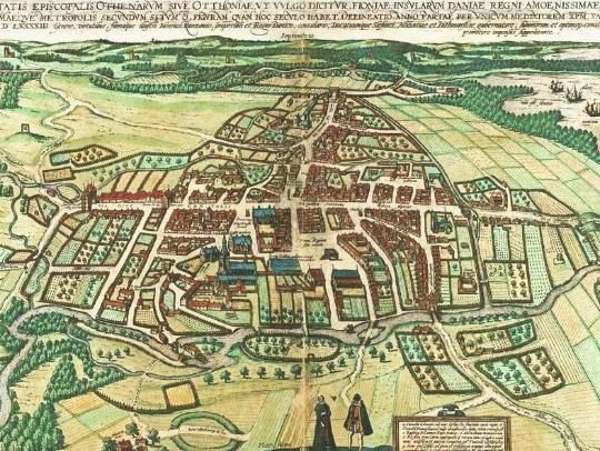 Branius Prospekt over Odense fra år 1593